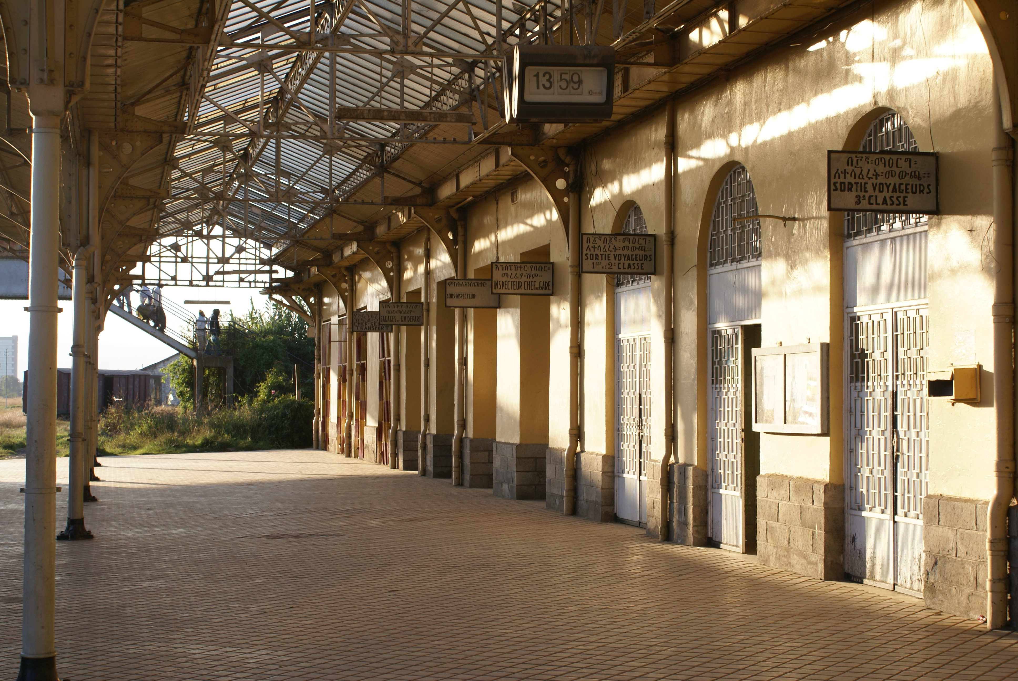 The disused platform at Addis Ababa Station